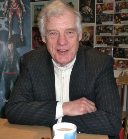 Richard Franklin at The Television & Movie Store, Norwich, England on 17 January 2009.